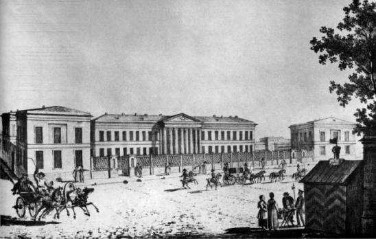 Mariinskaya Hospital. Lithograph. 1820-th